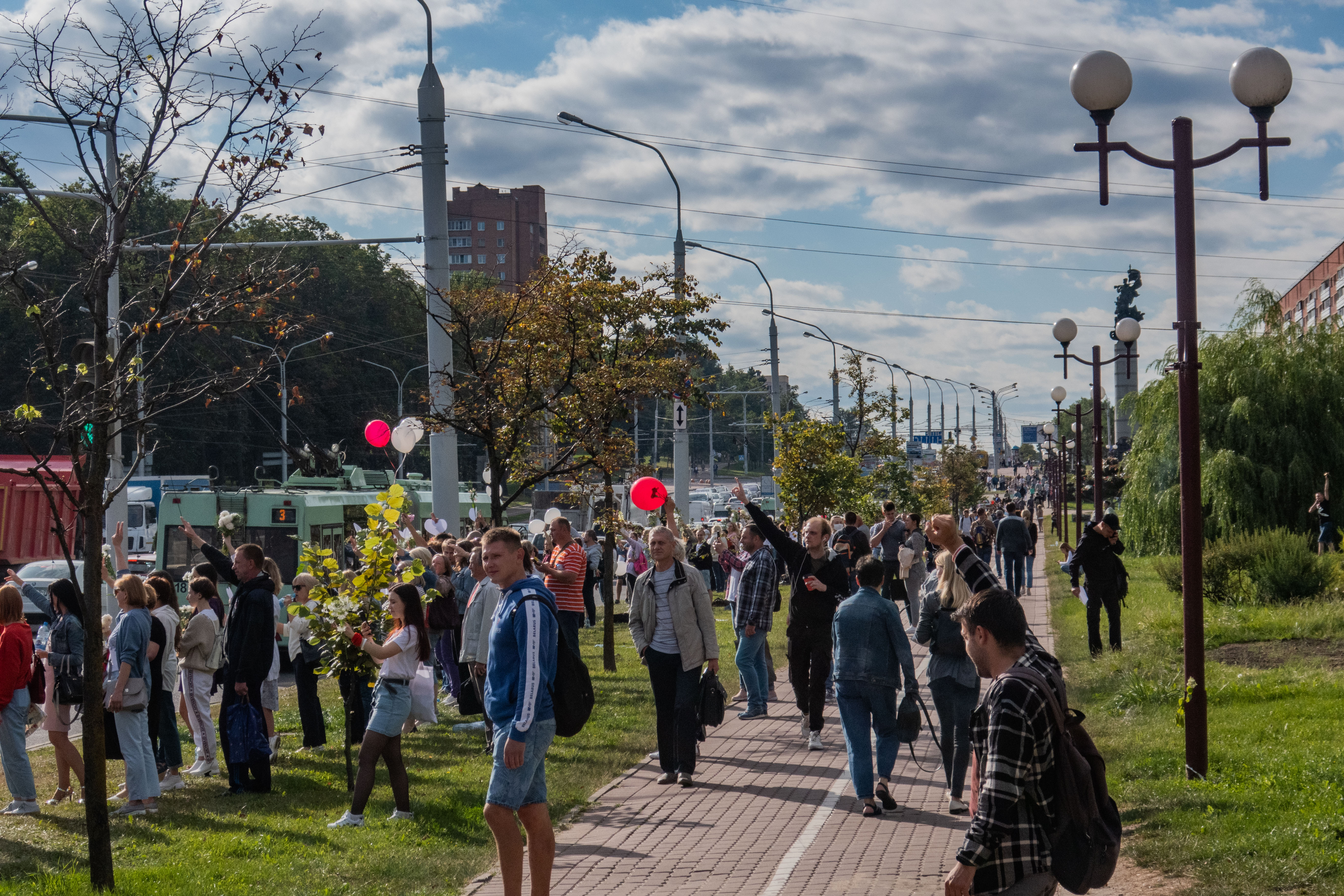 Local line of solidarity during mass protests. Minsk, Belarus